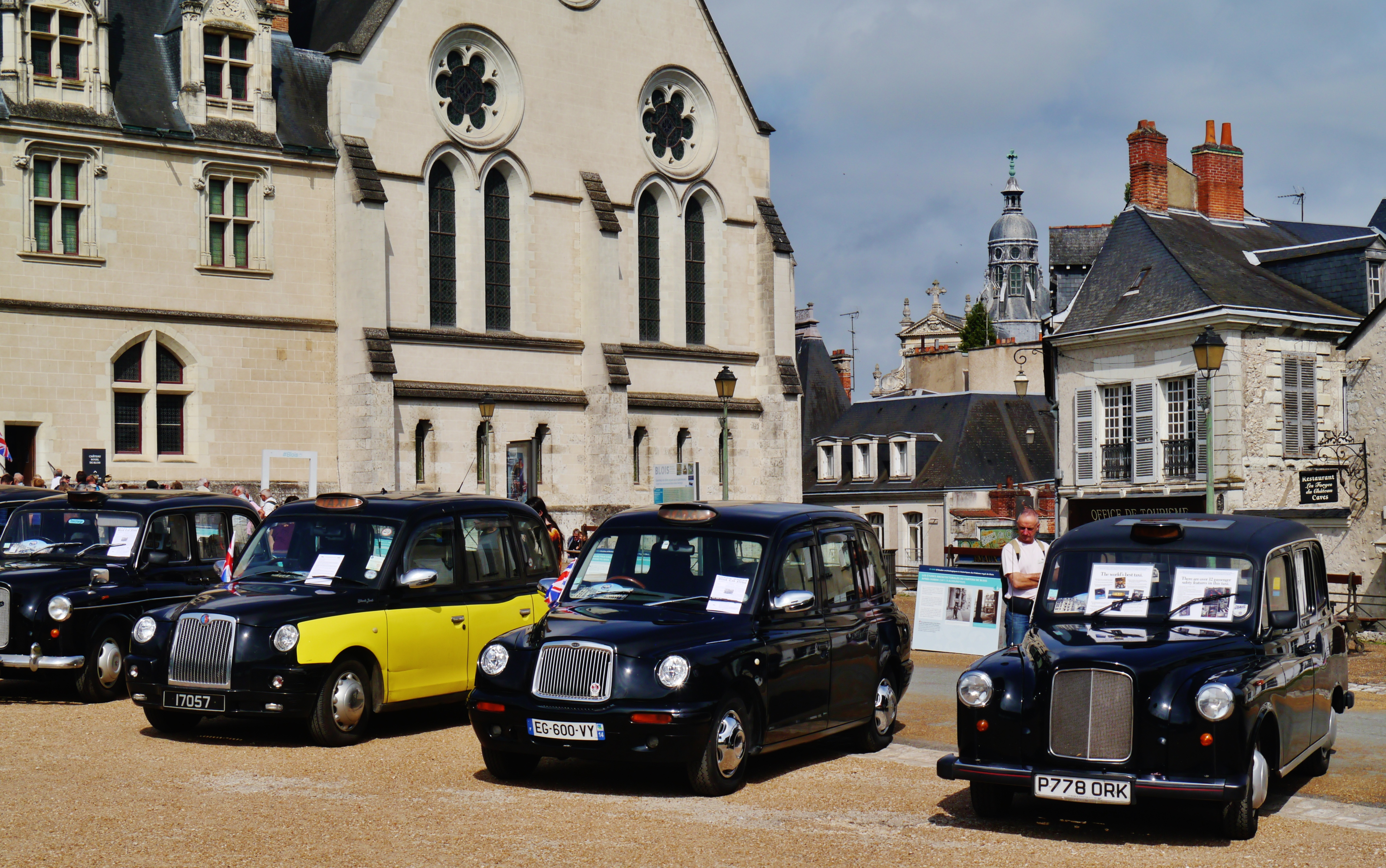 London Cabs in Front of Blois Castle, Blois, Department of Loir-et-Cher, Region of Centre-Loire Valley, France